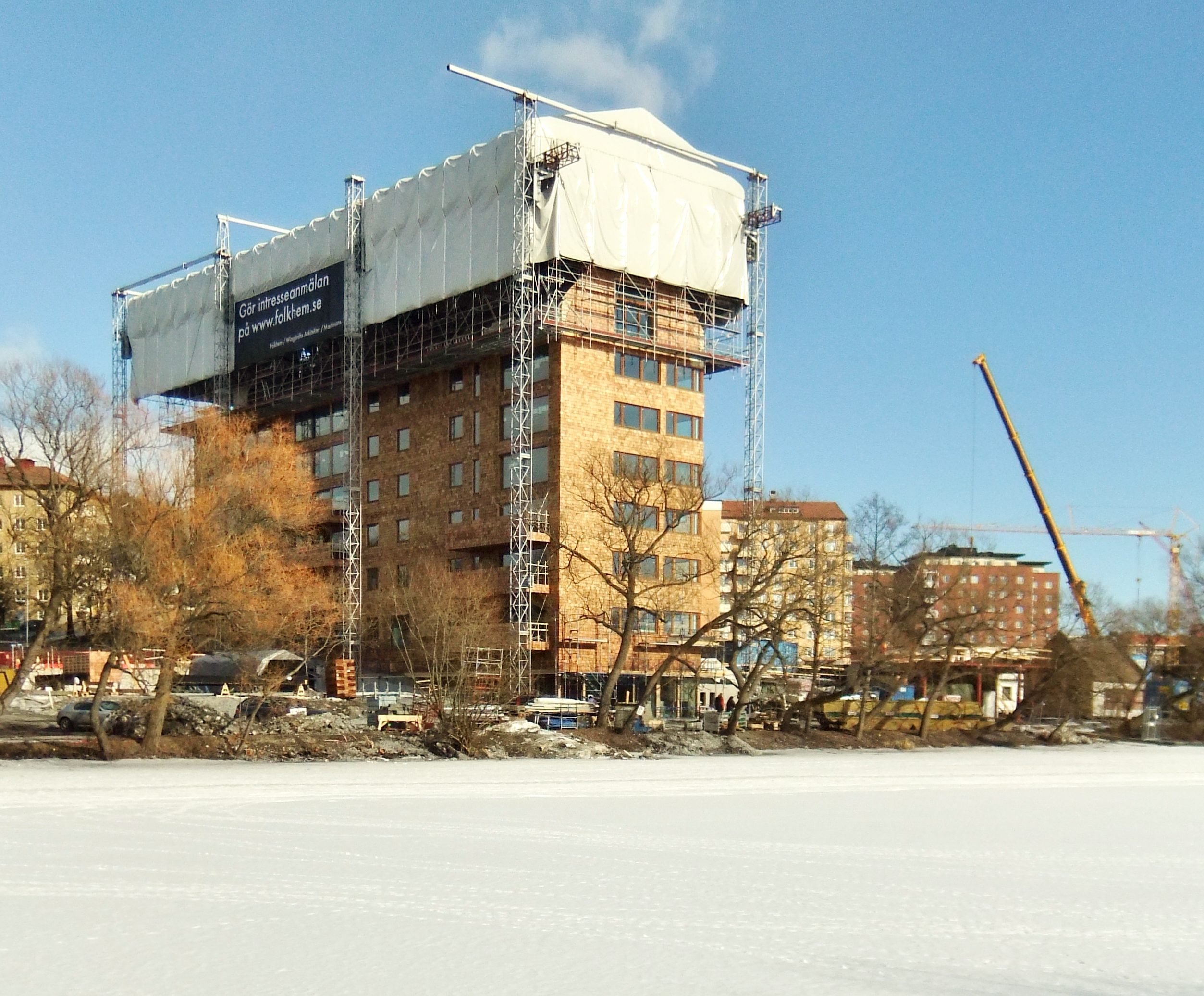 Swedens tallest wooden-house, under construction, 8th floor (in english 9th floor?)